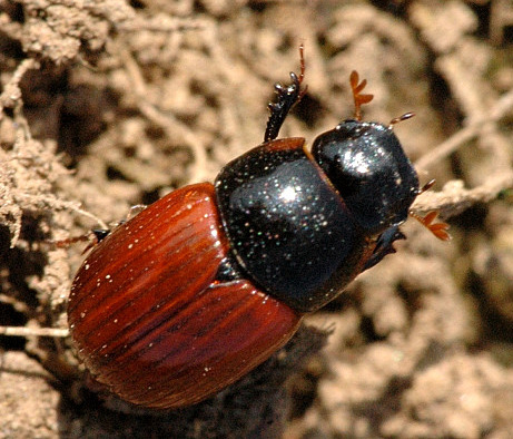 Picture taken in Commanster, Belgian High Ardennes . Species: Aphodius fimetarius